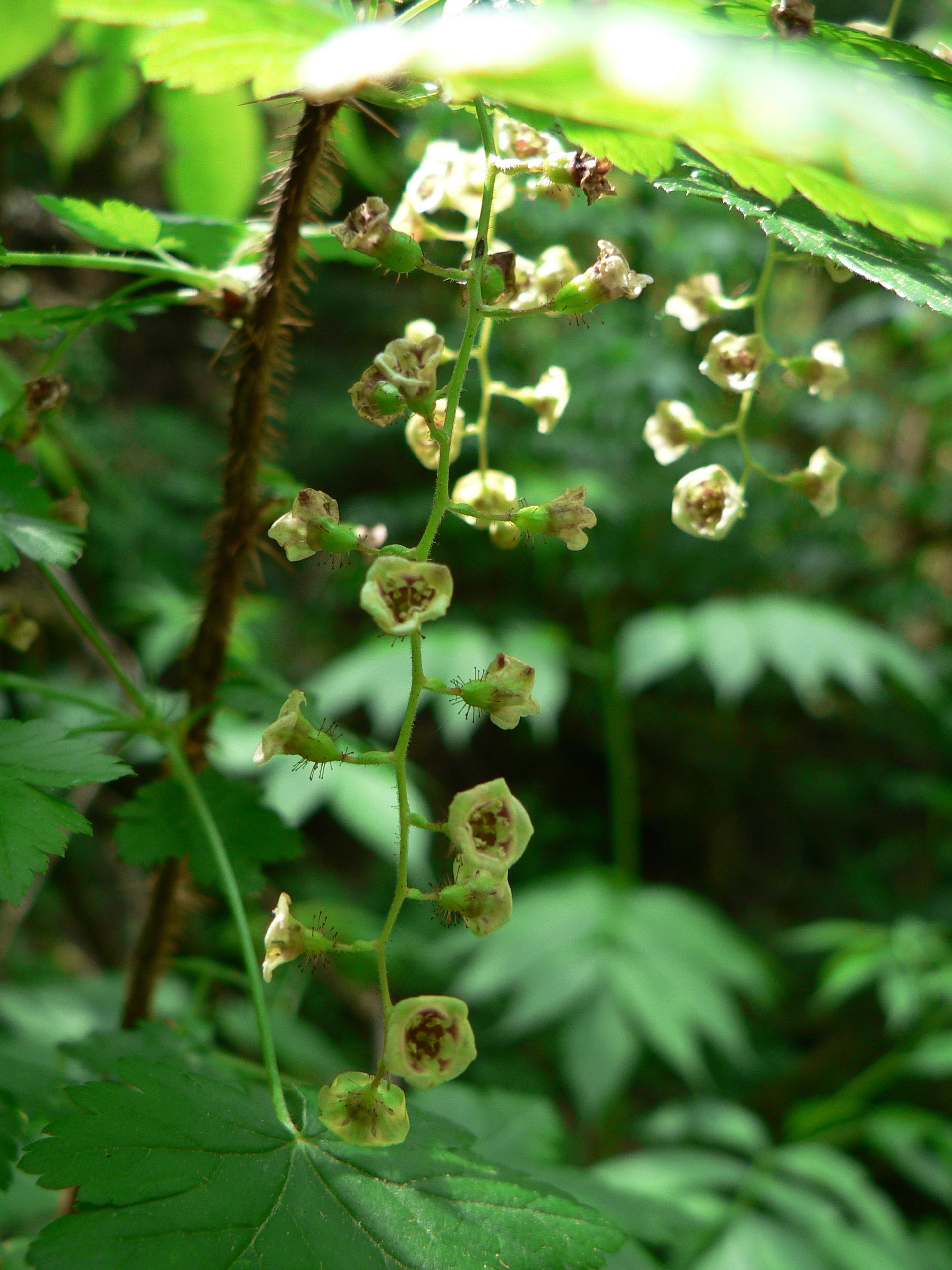 Prickly Currant